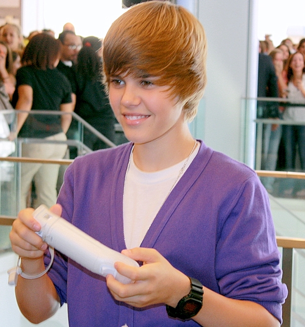 NYC signing September 1,2009 Nintendo Store - NYC